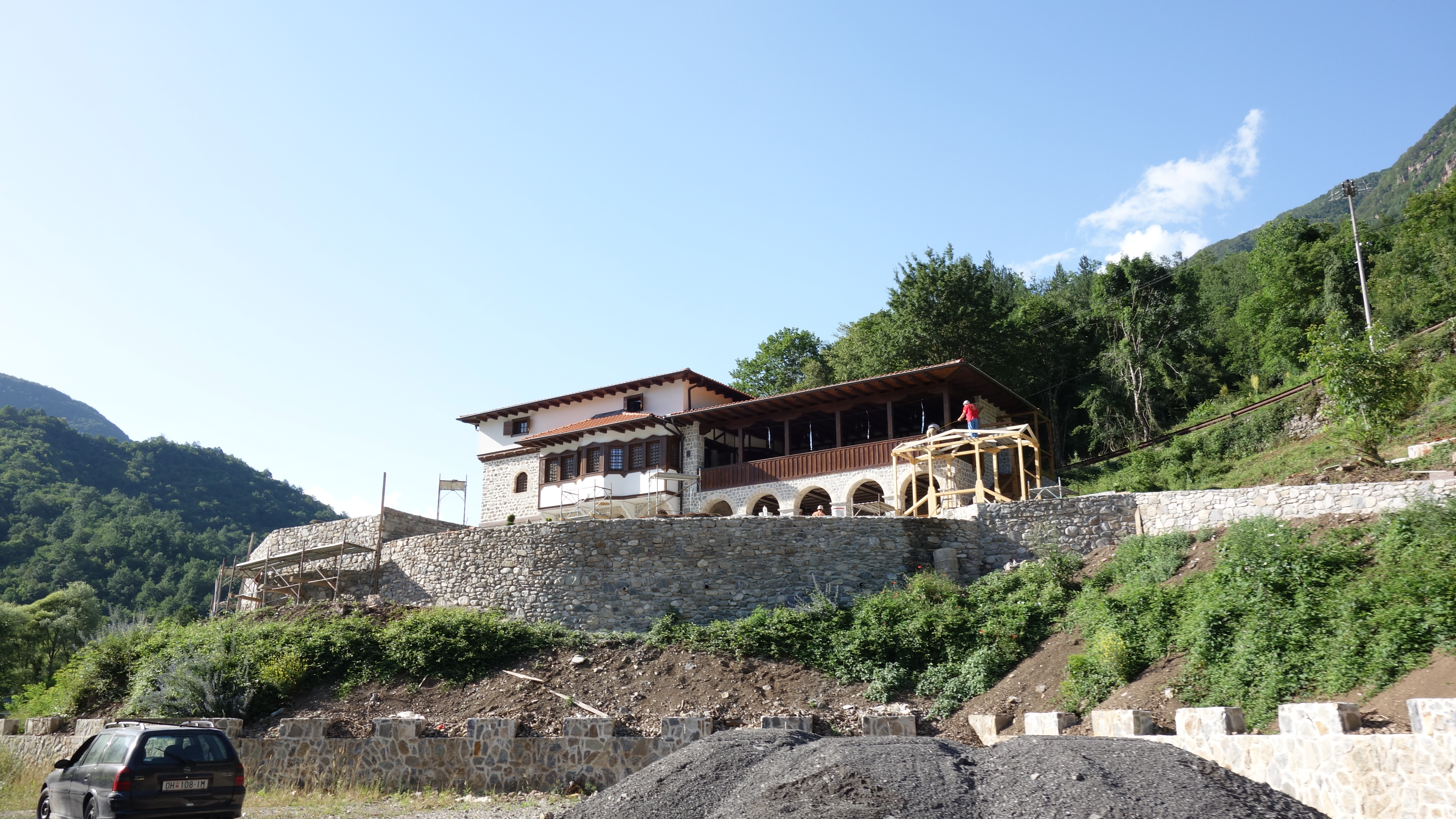 Kuḱata na Mijacite, ethno restaurant near Bigorski monastery in Rostuše, Macedonia